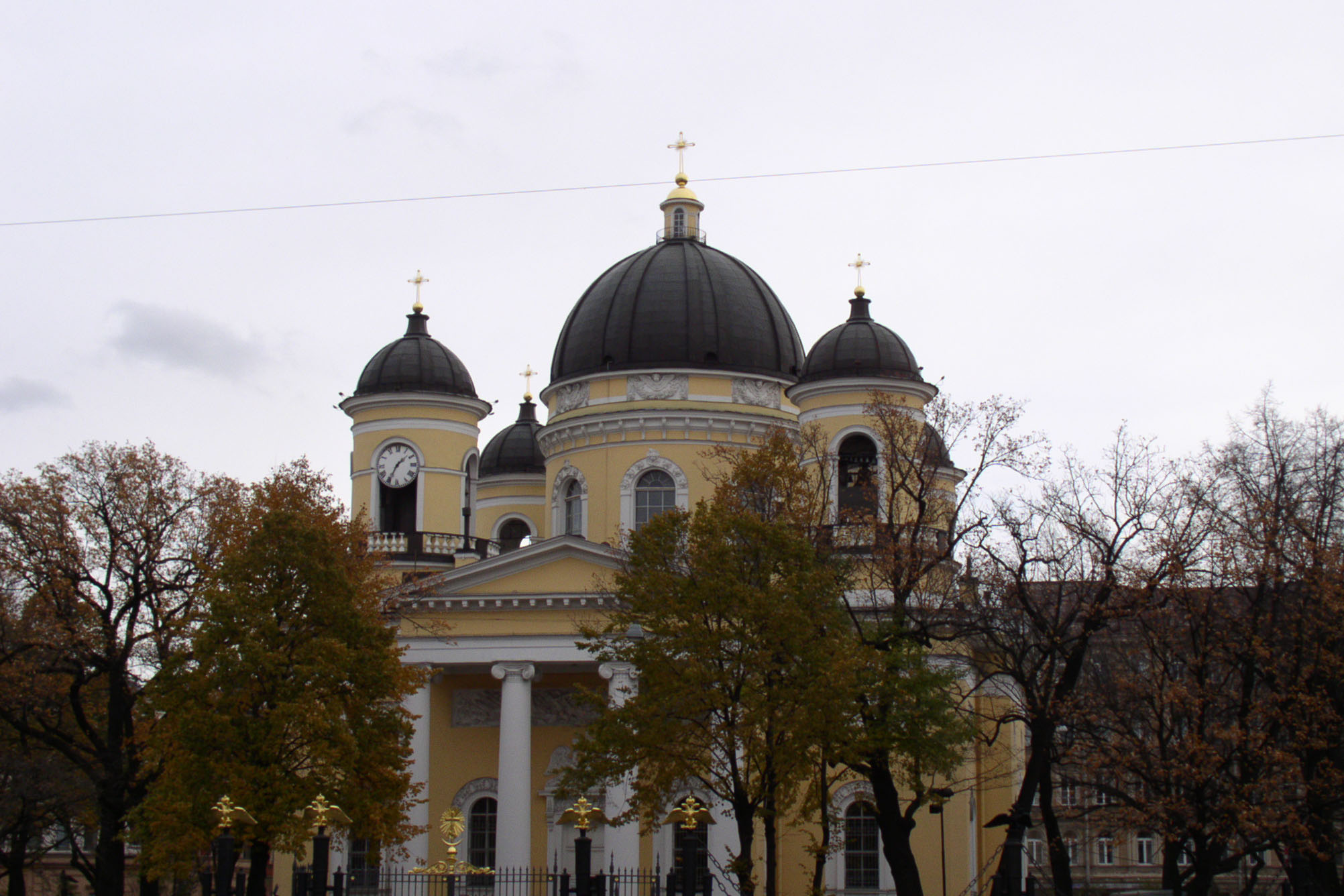 The west facade of the Transfiguration Cathedral in Saint Petersburg. October 31, 2006.